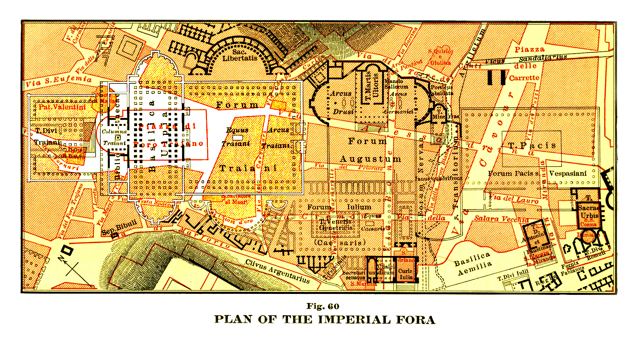 Archaeological map of the Imperial Forum of Rome Modified from original scan for color and contrast to show Trajan's Forum